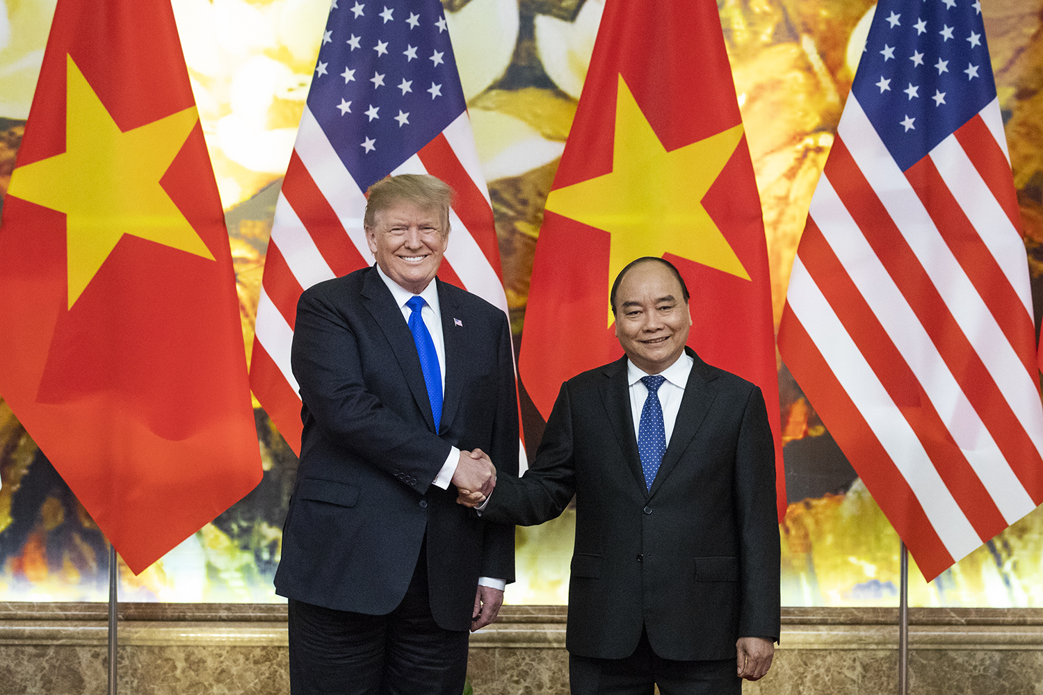 President Donald J. Trump and Nguyen Xuan Phuc, Prime Minister of the Socialist Republic of Vietnam, participate in a photo opportunity in the main foyer of the Office of Government Hall Wednesday, Feb. 27, 2019, in Hanoi. (Official White House Photo by Joyce N. Boghosian)